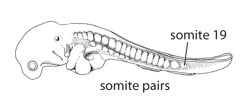 Standard Event System character depiction